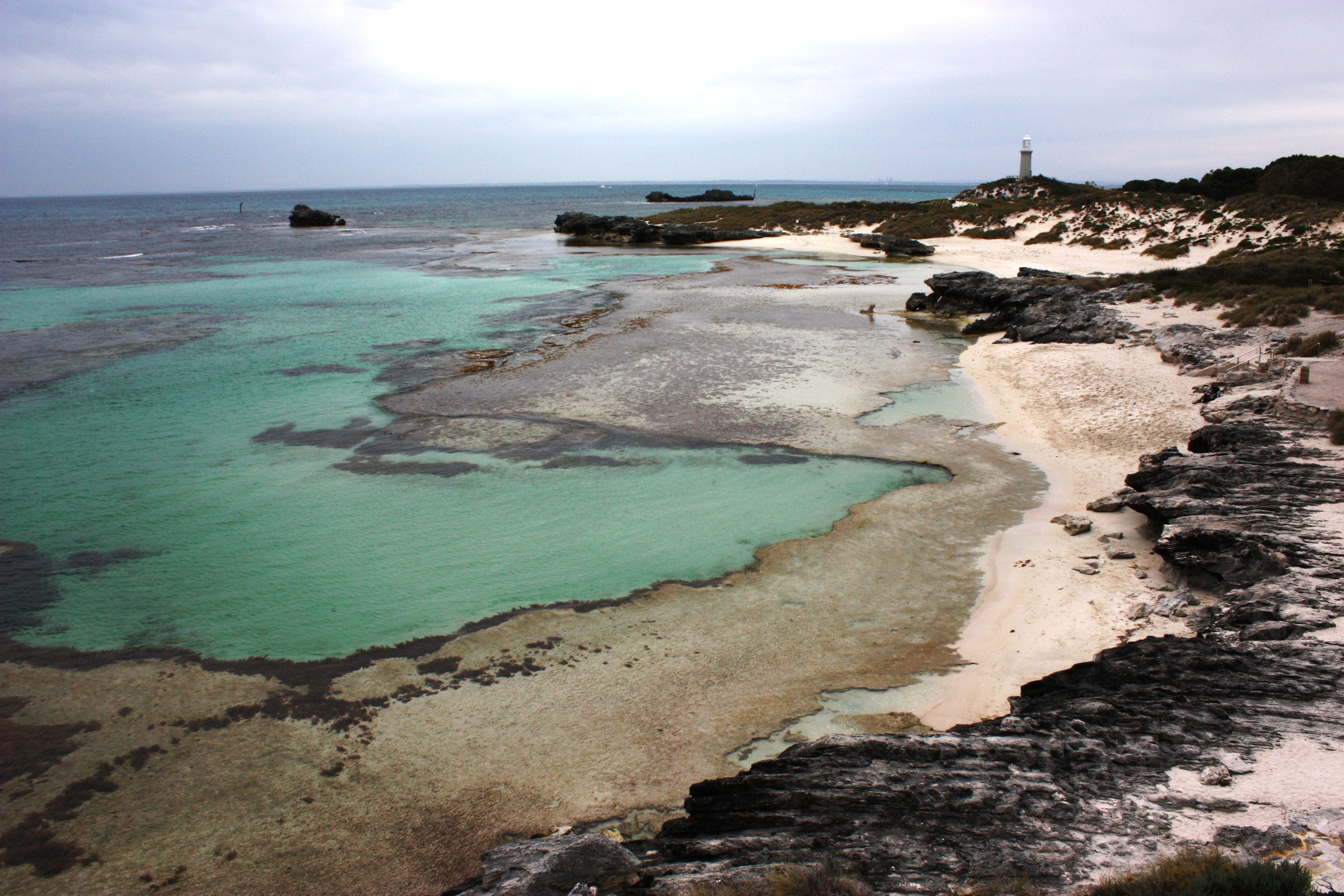 The Basin, Rottnest Island, viewed from atop the limestone outcrop at its western edge, separating it from Longreach Bay